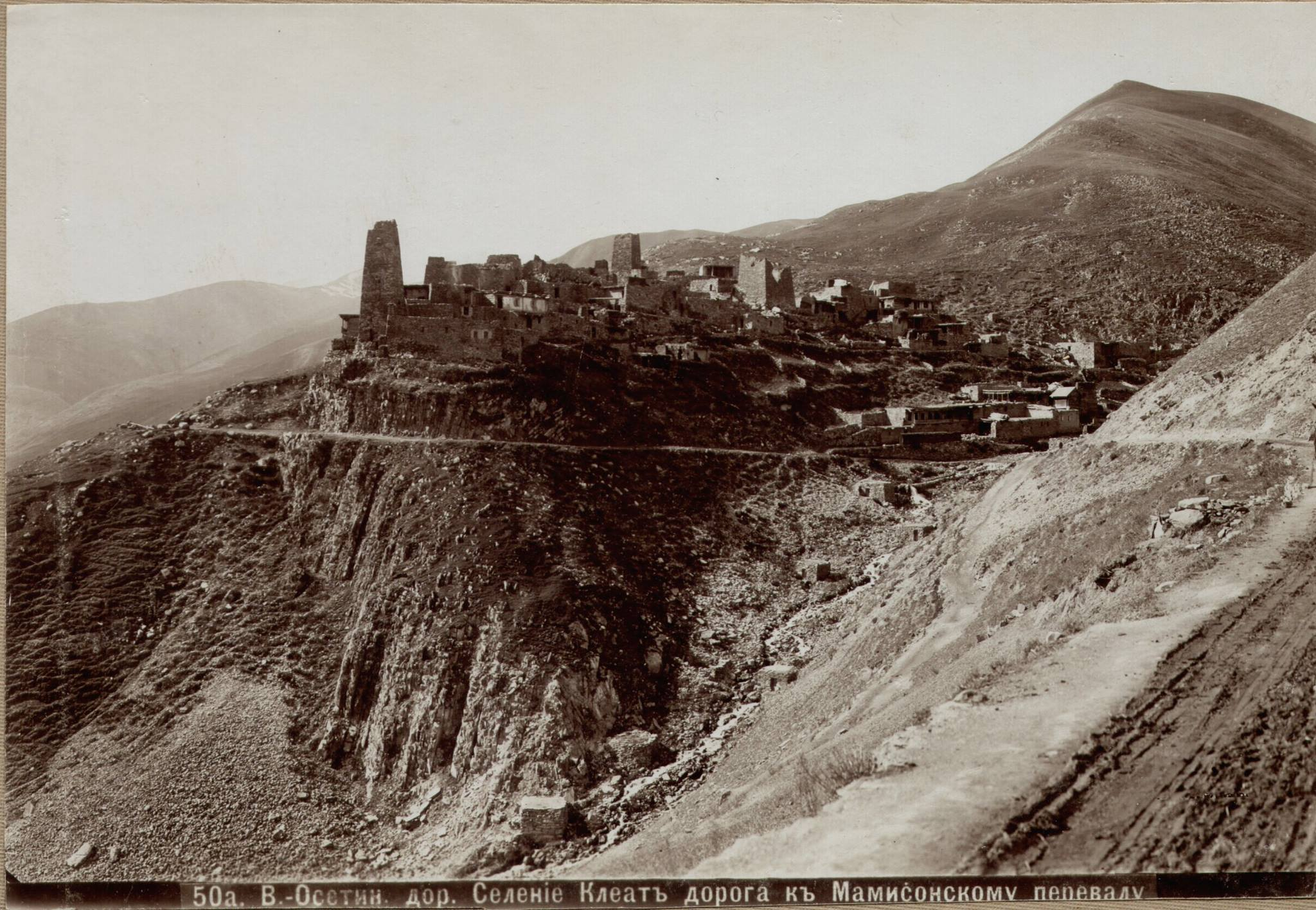 Gr. Raev. № 50a. Village Kleat